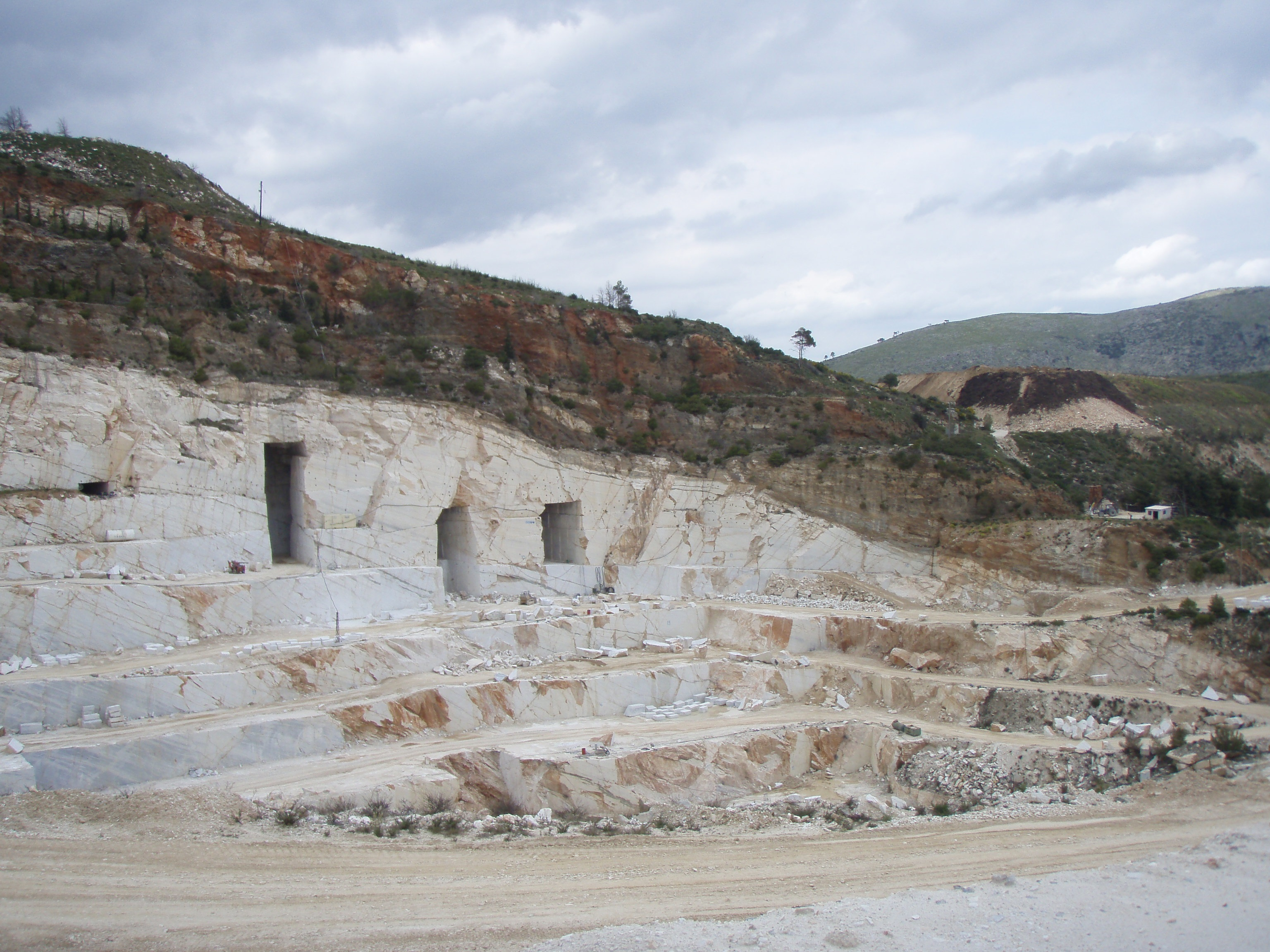 Underground quarrying for marble, Pendeli Mountain, Greece